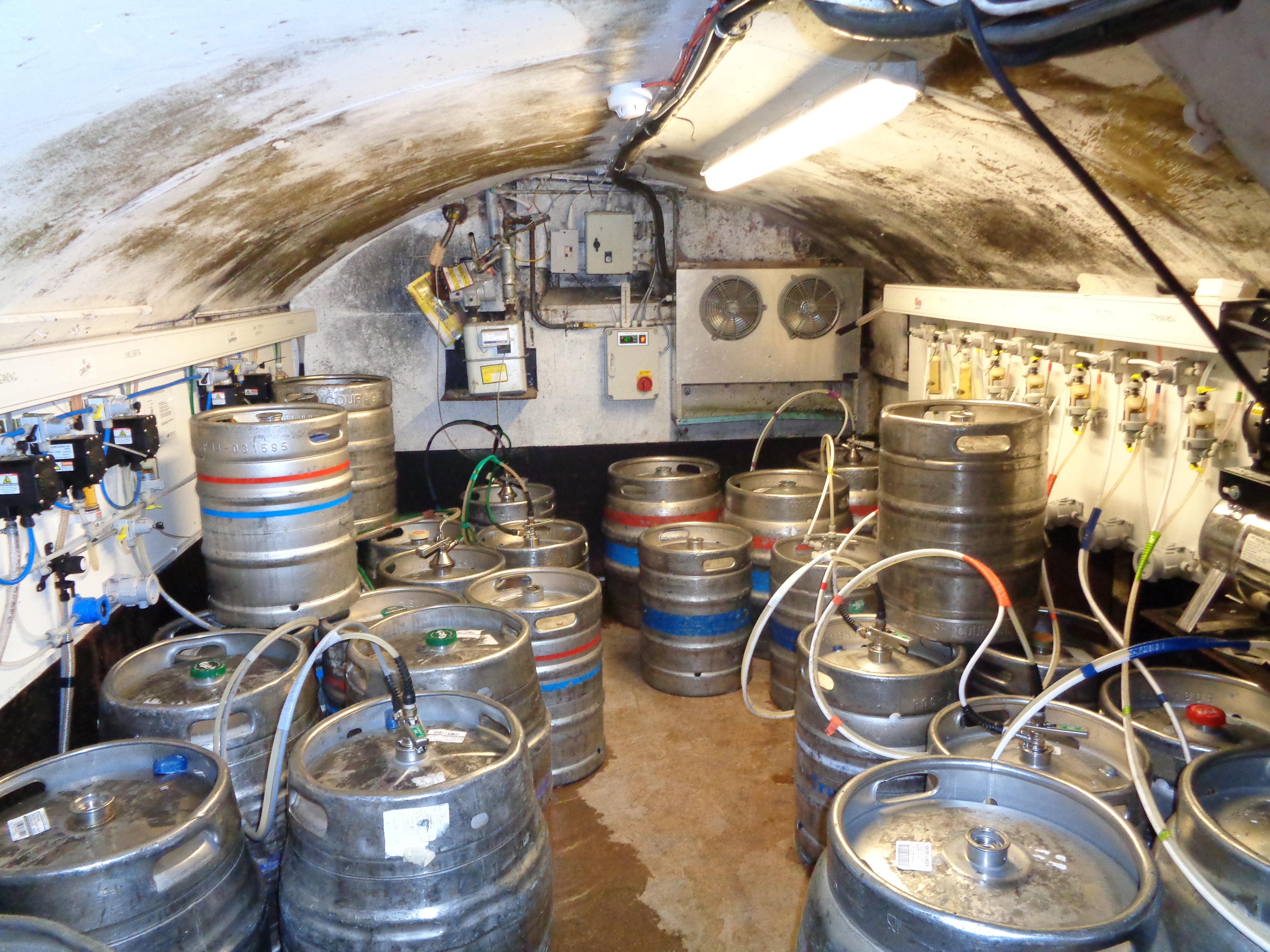 Cellar, New Inn, Wetherby, West Yorkshire. Taken on the evening of Sunday the 7th of June 2015.